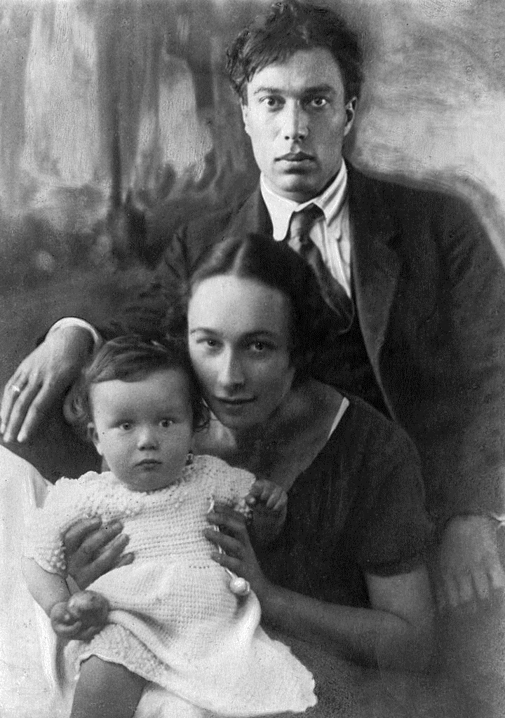 Russian writer Boris Pasternak posing with his wife Evgenia Vladimirovna Lourie and a son.